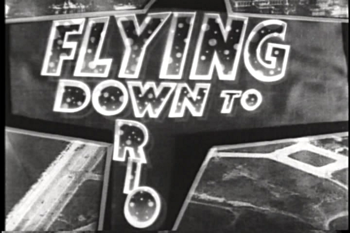 Film screenshot from the trailer to Flying Down to Rio (1933)